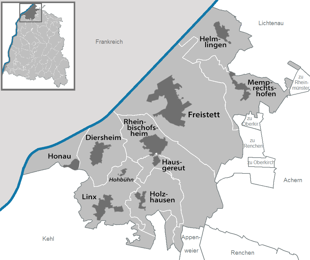 Map of Rheinau (Baden)